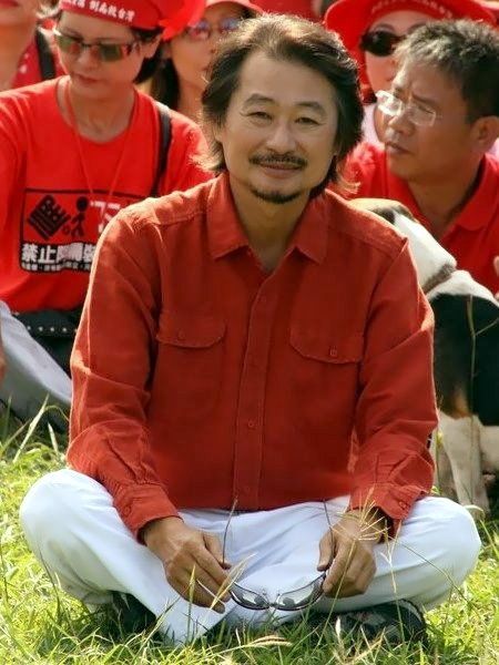 Shih Ming-de at a Depose Abian demonstration in 2006.